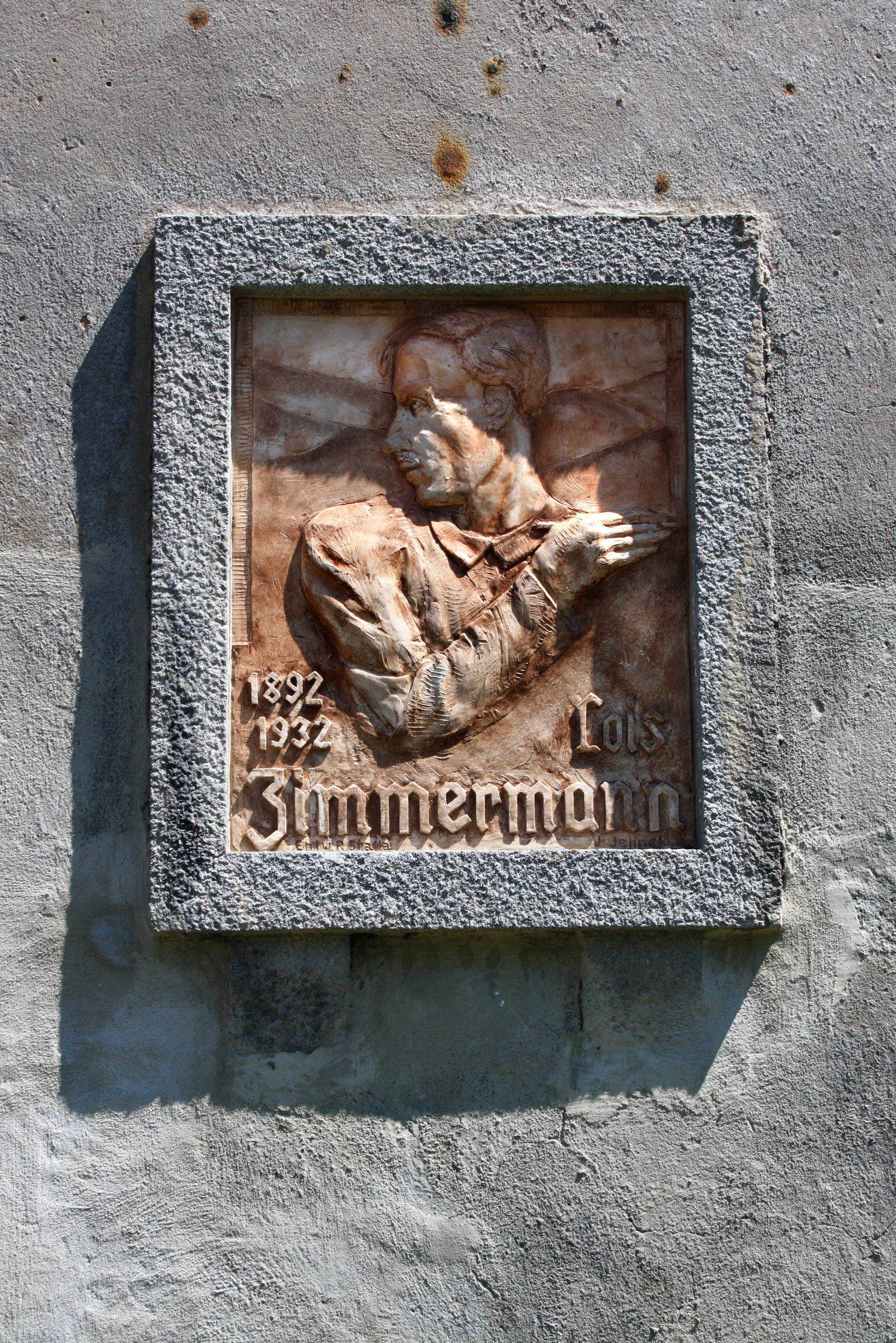 Plaque at Orasín village, part of Boleboř, Czech Republic